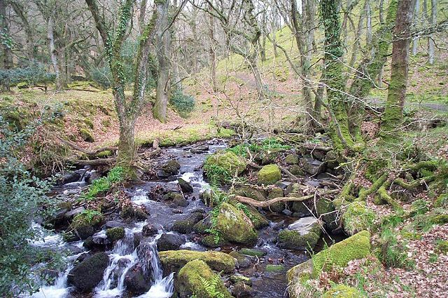 Halstock wood - near Okehampton. The East Okement as it passes through Halstock Wood (SX 608937).